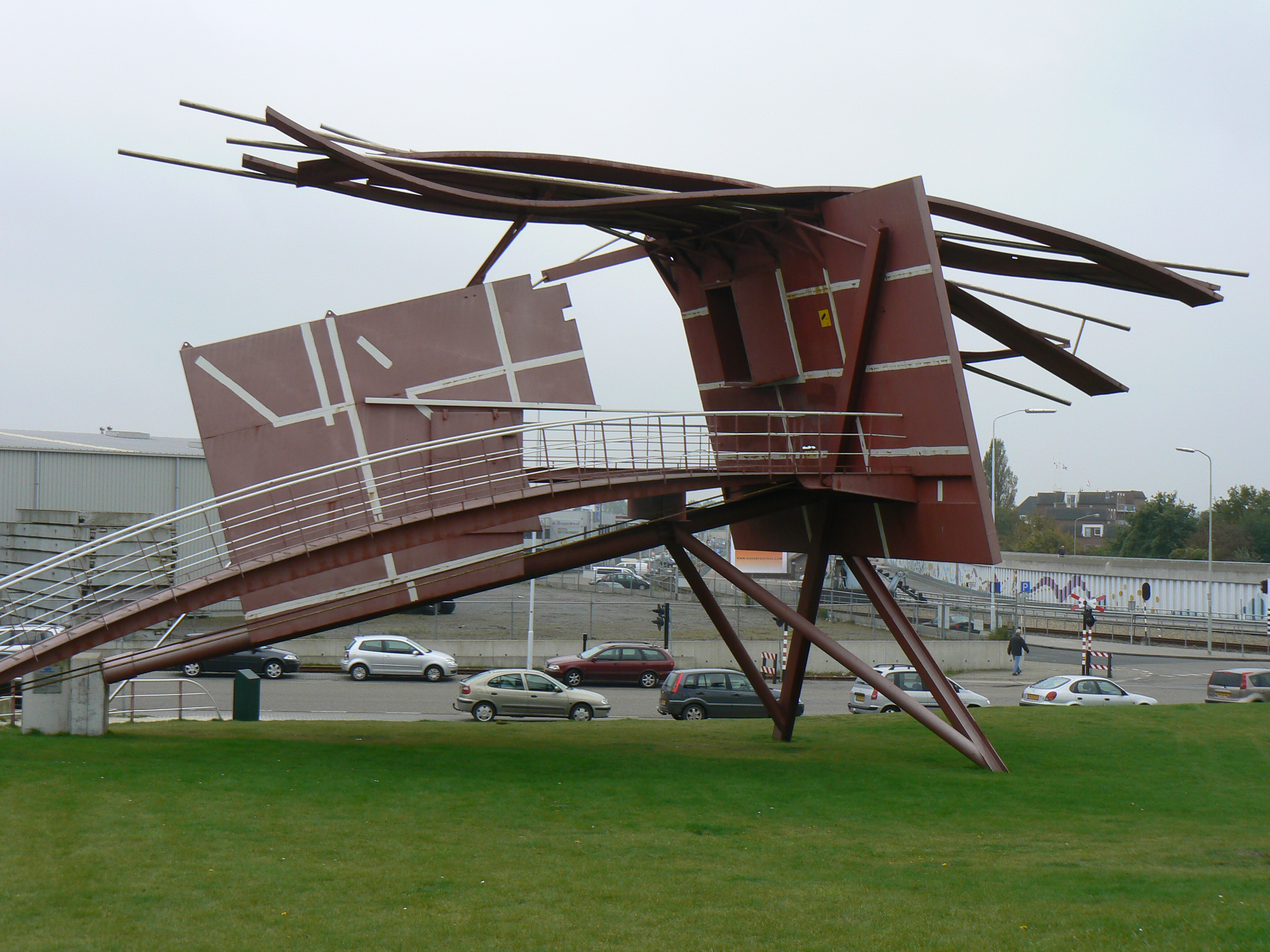 Video Clip Folly (1990) by Coop Himmelb(l)au in Delfzijl/The Netherlands